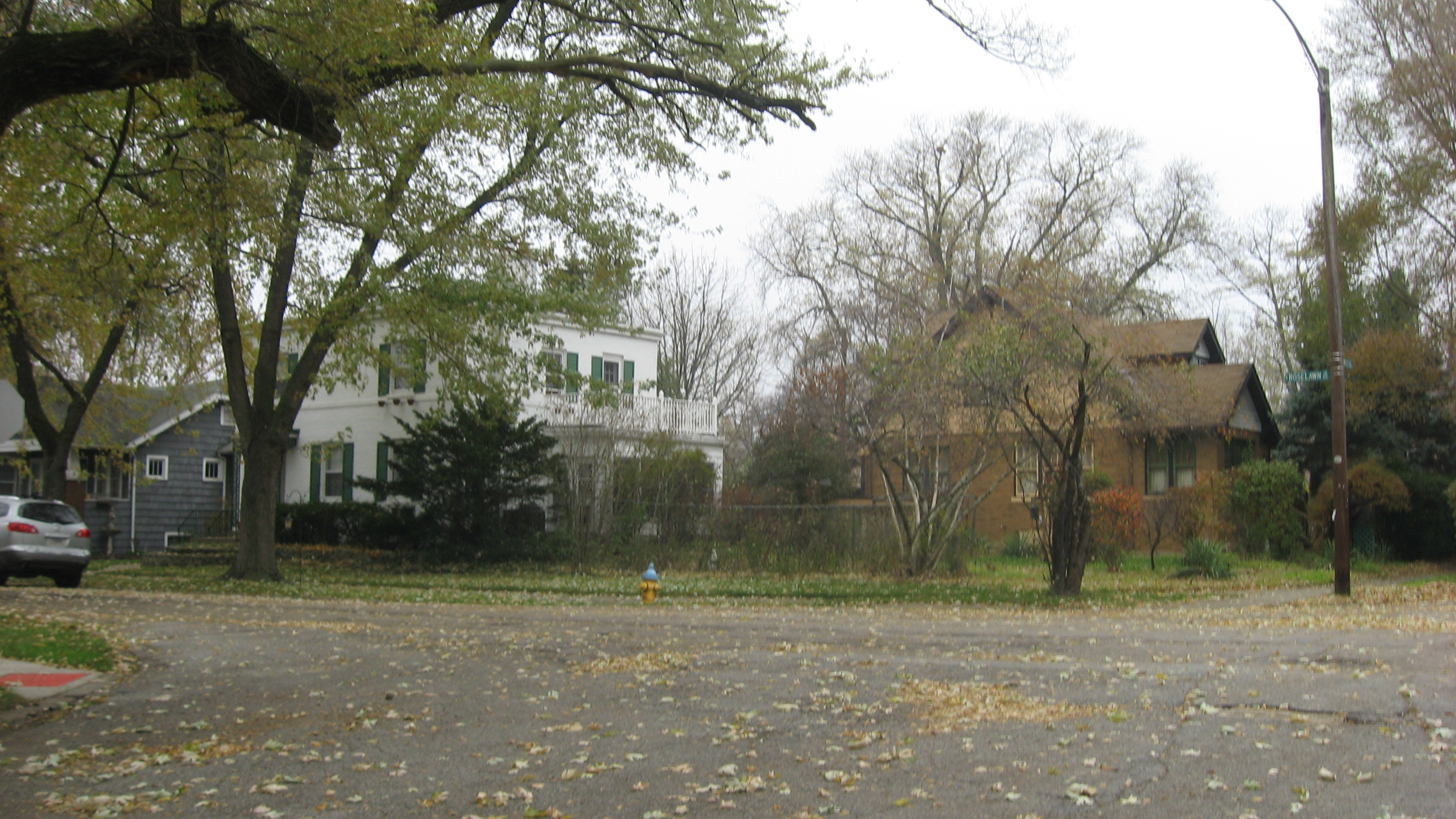 Houses on the northwestern corner of the junction of Roselawn Street and Forest Avenue in Hammond, Indiana, United States. This neighborhood composes the Roselawn-Forest Heights Historic District, a historic district that is listed on the National Register of Historic Places.